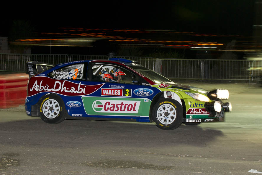 Wales Rally GB 2010 BP Ford Abu Dhabi World Rally Team,Ford Focus RS WRC 09,Jarmo Lehtinen,Mikko Hirvonen,Rally,Rallye,WRC